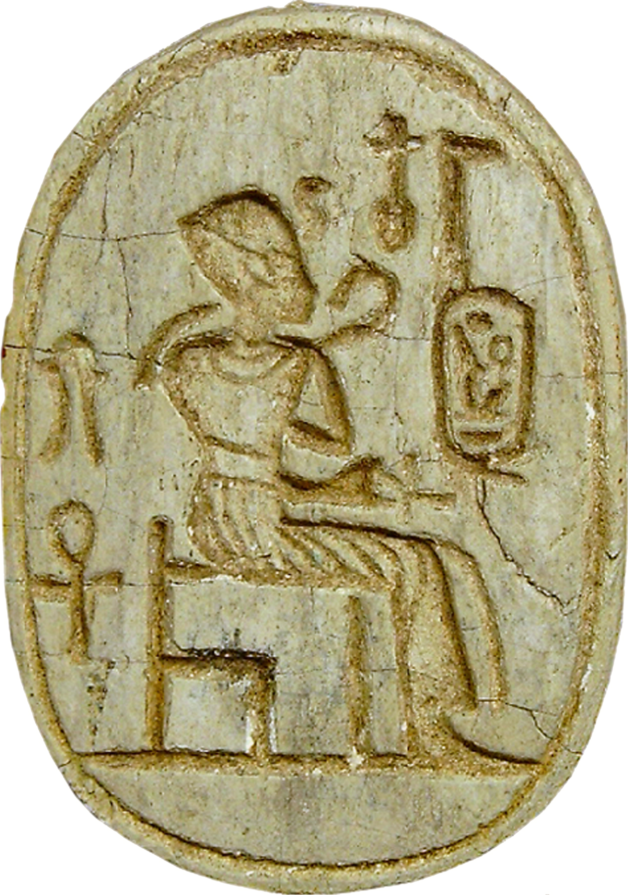 The ancient Egyptians believed that the dung beetle, the Scarabaeus sacer, was one of the manifestations of the sun god. Representations of these beetles were used as amulets, and for ritual or administrative purposes. This scarab has a bottom design that displays King Amenhotep III seated on his throne. He is dressed in a long pleated shendyt, wears the so-called "Blue crown" with Uraeus-serpent and crown sash. The king holds with his left hand the crook in front of his chest, and with his right an ankh-sign (meaning "life"). The block throne has a small back. In front of him is a column with a left reading inscription, containing his throne name and title, and behind him the hieroglyphs for "protection" and "life." The layout is well organized, but it is notable that the royal figure does not fill the whole space, and that the Uraeus on the forehead of the king is unusually large. The highest point of the scarab's back is the pronotum (dorsal plate of the prothorax). Pronotum and elytron (wing cases) have deeply incised, fine borderlines, single separation lines, V-shaped marks for the humeral callosities (shoulder thickenings), and small side-depressions. The partition lines between pronotum and elytron meet V-shaped. The rectangular head is flanked by triangular eyes. The trapezoidal side plates have curved outer edges and borderlines, and the clypeus (front plate) has four frontal serrations and two central base notches. The raised, slender extremities have natural form; the background between the legs is deeply hollowed out. The low oval base is symmetrical. The scarab is longitudinally pierced, was originally mounted or threaded, and functioned as an amulet. It secures the existence ("life"), protection, divinity (title: "Perfect god"), and royal authority (cartouche, seated king with scepter) for the king, and provides a private owner with his patronage and protection.